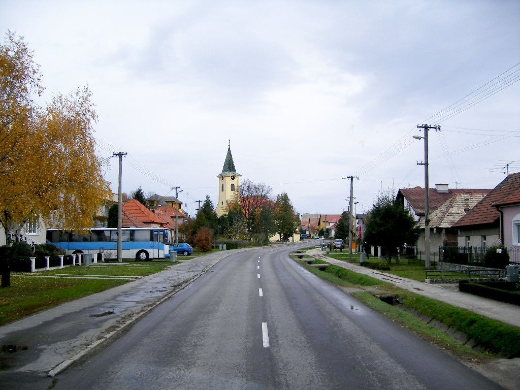 Solčany